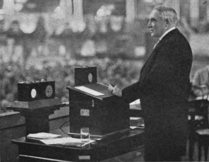 The caption in "Radio For All" misidentifies this as being taken on May 30, 1922 in Arlington, Virginia. However, this same photograph appeared on page 5 of the May 23, 1922 issue of the Washington Post, which identified it as the May 18, 1922 broadcast of Harding's speech at the U.S. Chamber of Commerce in Washington, D.C. This photo also appears on page 3 of the June 3, 1922, issue of "Radio World", which further states that "President Harding delivered, by radio, the most important address he has made since he took office, before the Chamber of Commerce of the United States" and "his words which were broadcast by radio through the powerful United States Navy Radio station at Washington." [NOF] This appears to have been the first presidential speech carried by radio.